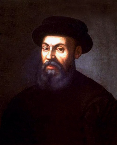 An anonymous portrait of Ferdinand Magellan, 16th or 17th century (The Mariner's Museum Collection, Newport News, VA)